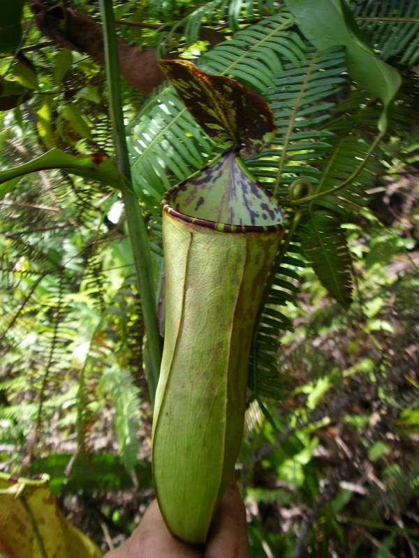 Nepenthes gracilis × Nepenthes sumatrana